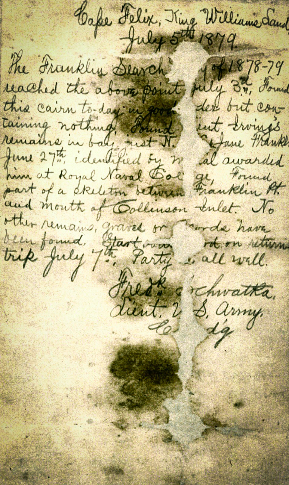 Lieut. Schwatka note left at Cape Felix, King William Island, July 5, 1879; discovered on probably 15 July 1995